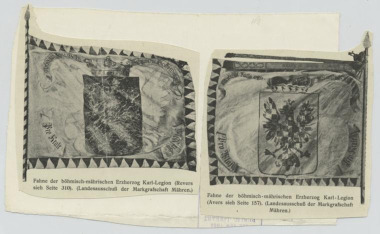 1800 Erzherzog Karl Legion flags. New York Public Library Vinkhuijzen Collection of Military Uniforms.